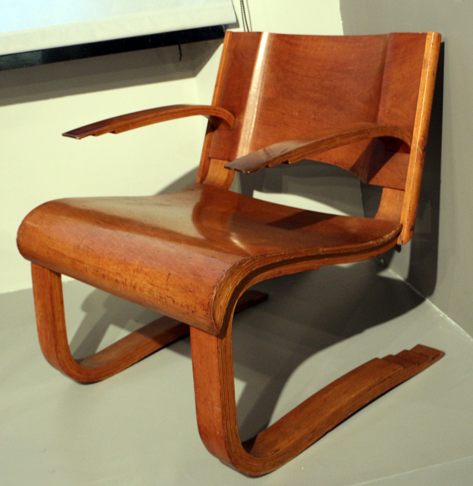 Wolfsoniana